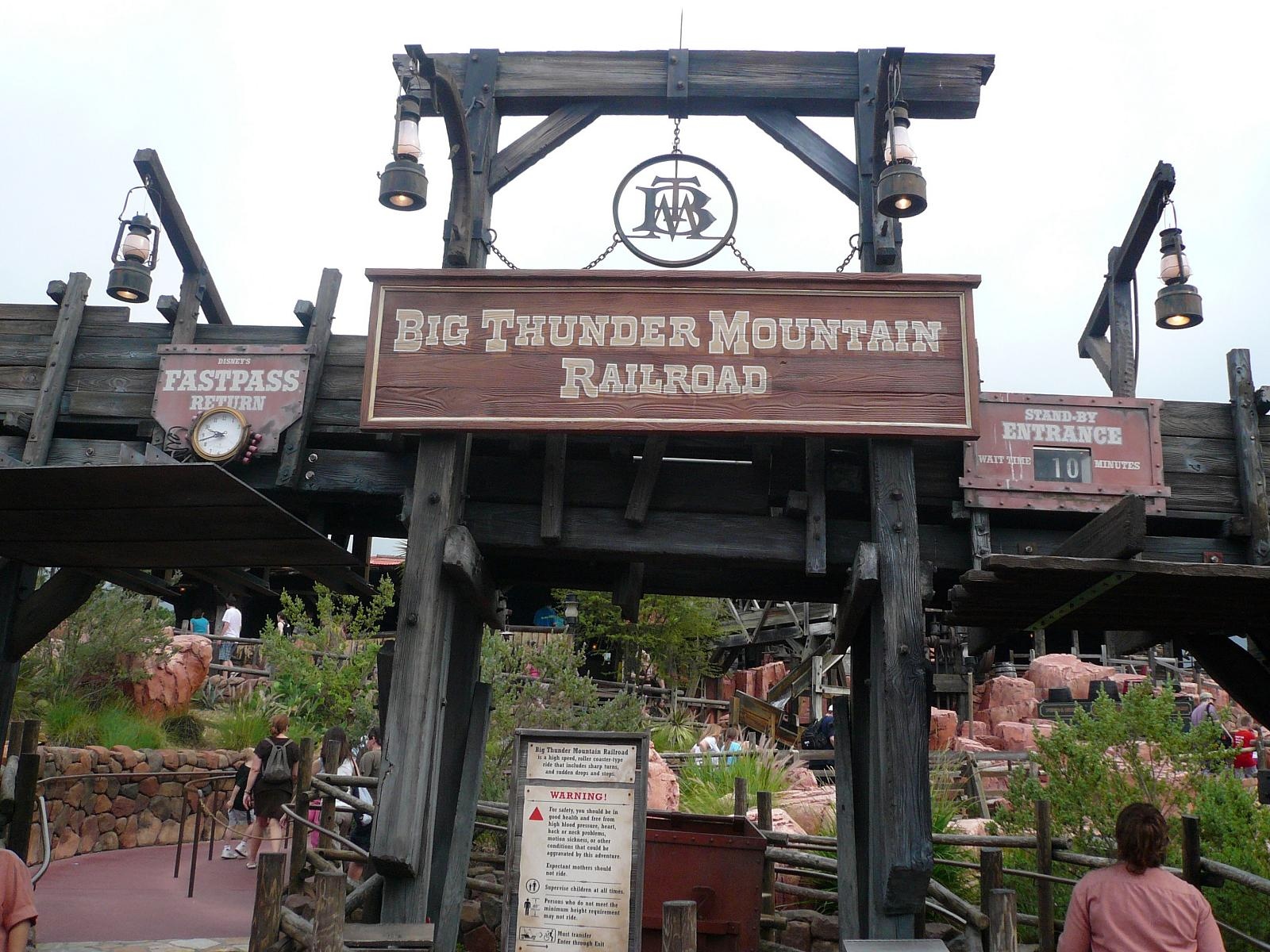 Big Thunder Mountain Entrance Sign Frontierland Magic Kingdom Walt Disney World